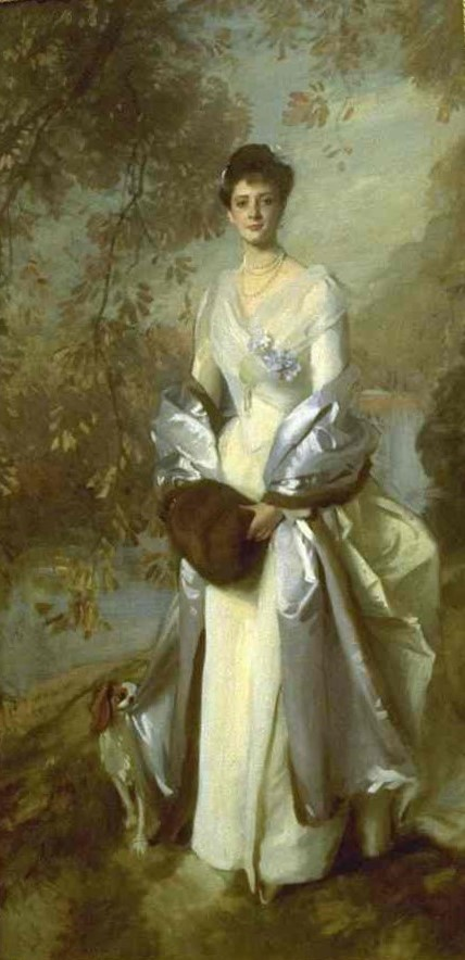 Pauline was the daughter of William Waldorf Astor, who was the son of John Jacob Astor III. Born in 1880, she lived until 1970. Jpg: Kathleen Cohen